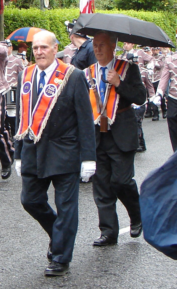 Copyright Douglas Jones.